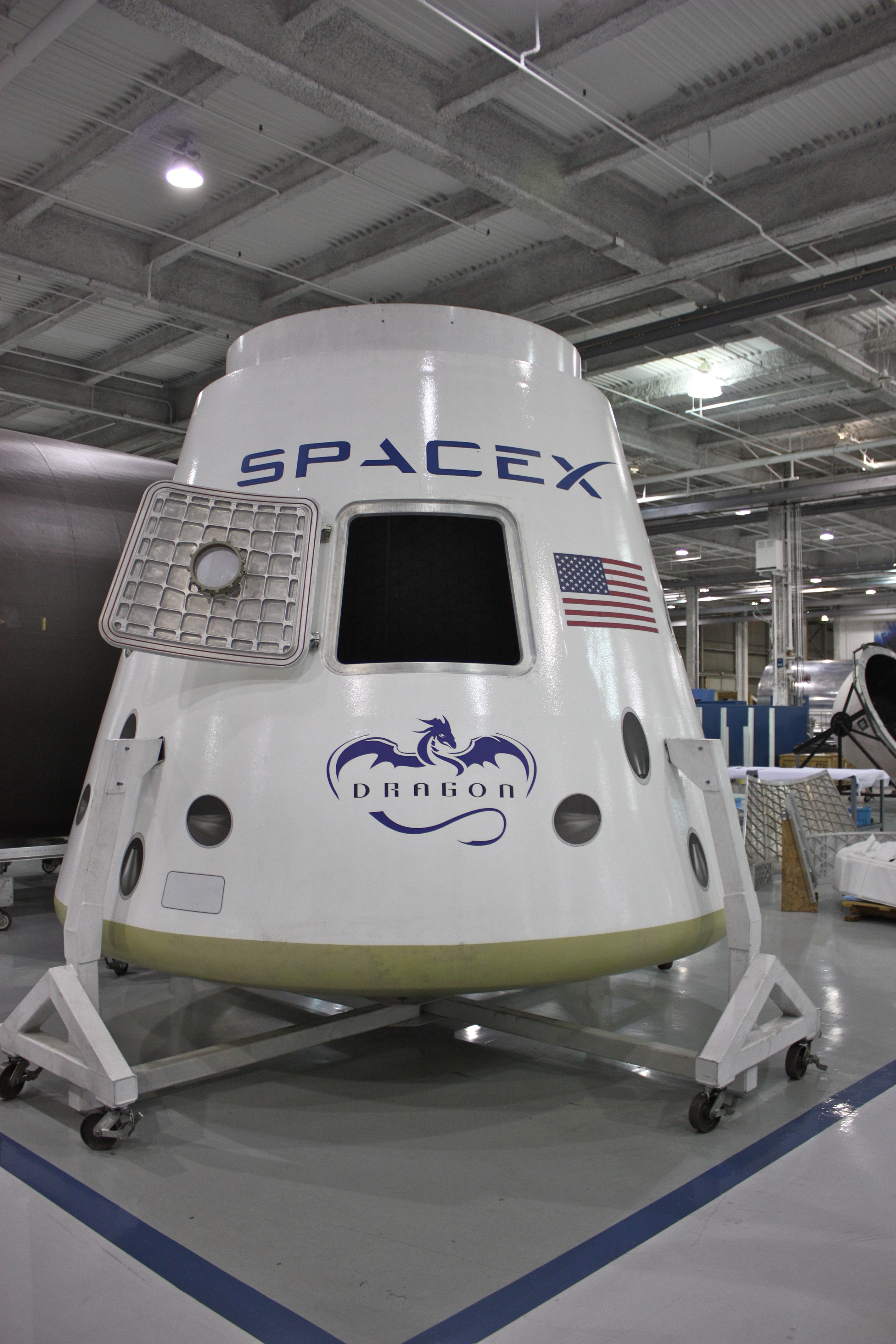 SpaceX's Dragon engineering model.